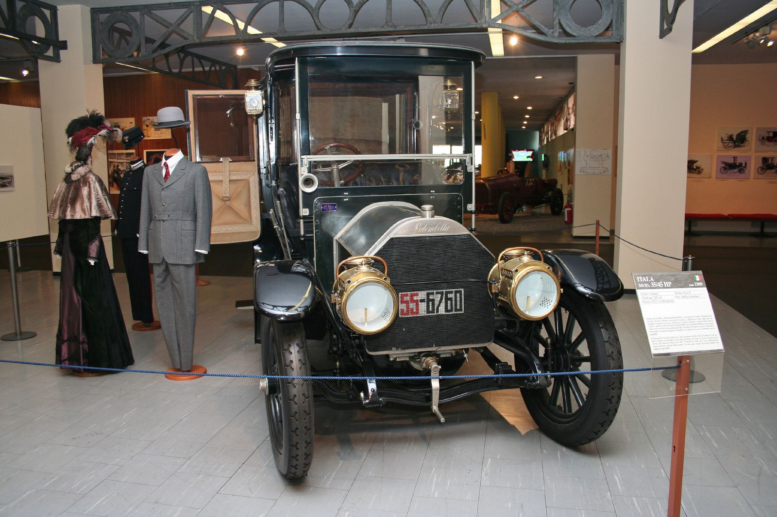 ITALA mod. 35/45 HP at MUSEO DELL'AUTOMOBILE Torino